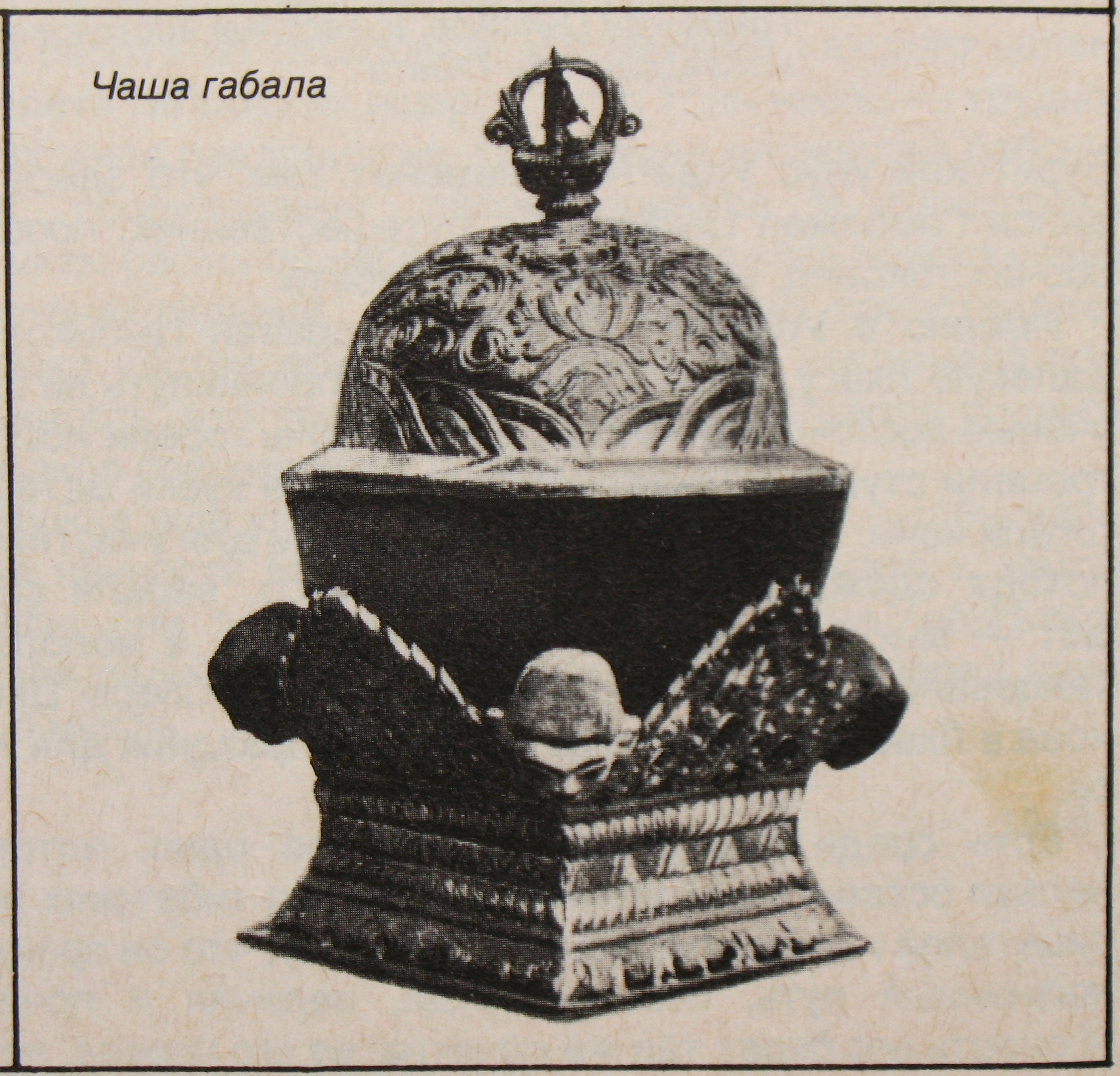 Gombojab Tsybikov photo in Tibet. Фотография сделана во Внутренней Монголии либо Тибете скрытой камерой через прорезь в молитвенной мельнице. Вожможно, монастырь Гумбум (нынешняя провиция Синин Китая).